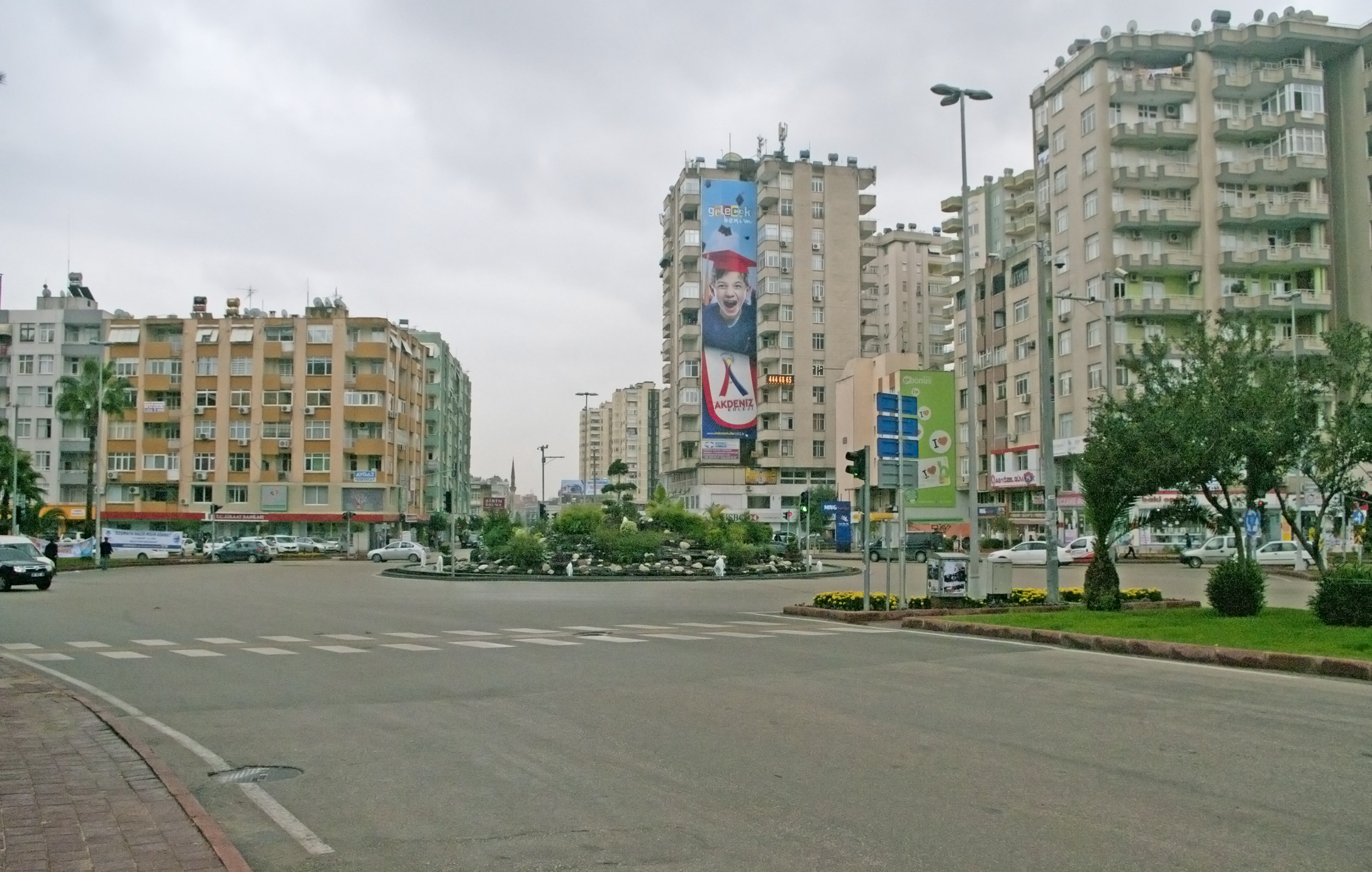 Hastaneler Kavşağı, a main juntion in Seyhan - Adana, Turkey.